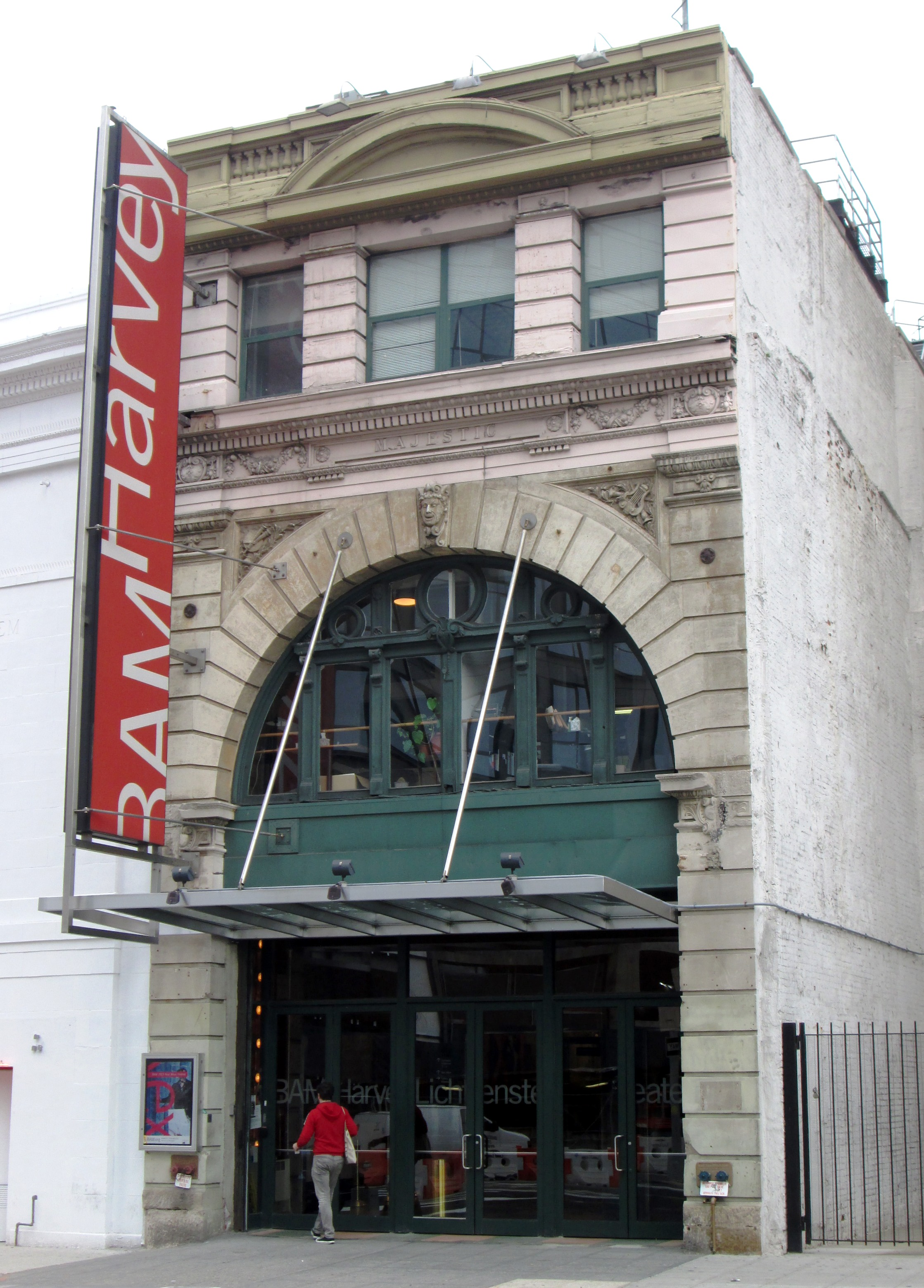 The BAM Harvey Theatre at 651 Fulton Street between Rockwell and Ashland Places, was formerly the Majestic Theatre, and was renamed after the long-time head of BAM, Harvey Lichtenstein. It was built in 1903, and renovated in 1987 by Hardy Holzmann Pfeiffer. (Source: AIA Guide tonYC (5th ed.)) The first production in the newly-renovated- to-look-dilapidated venue was Sir Peter Brooks The Mahabarata.